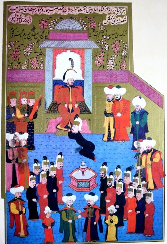 Coronation of sultan Mehmed I.